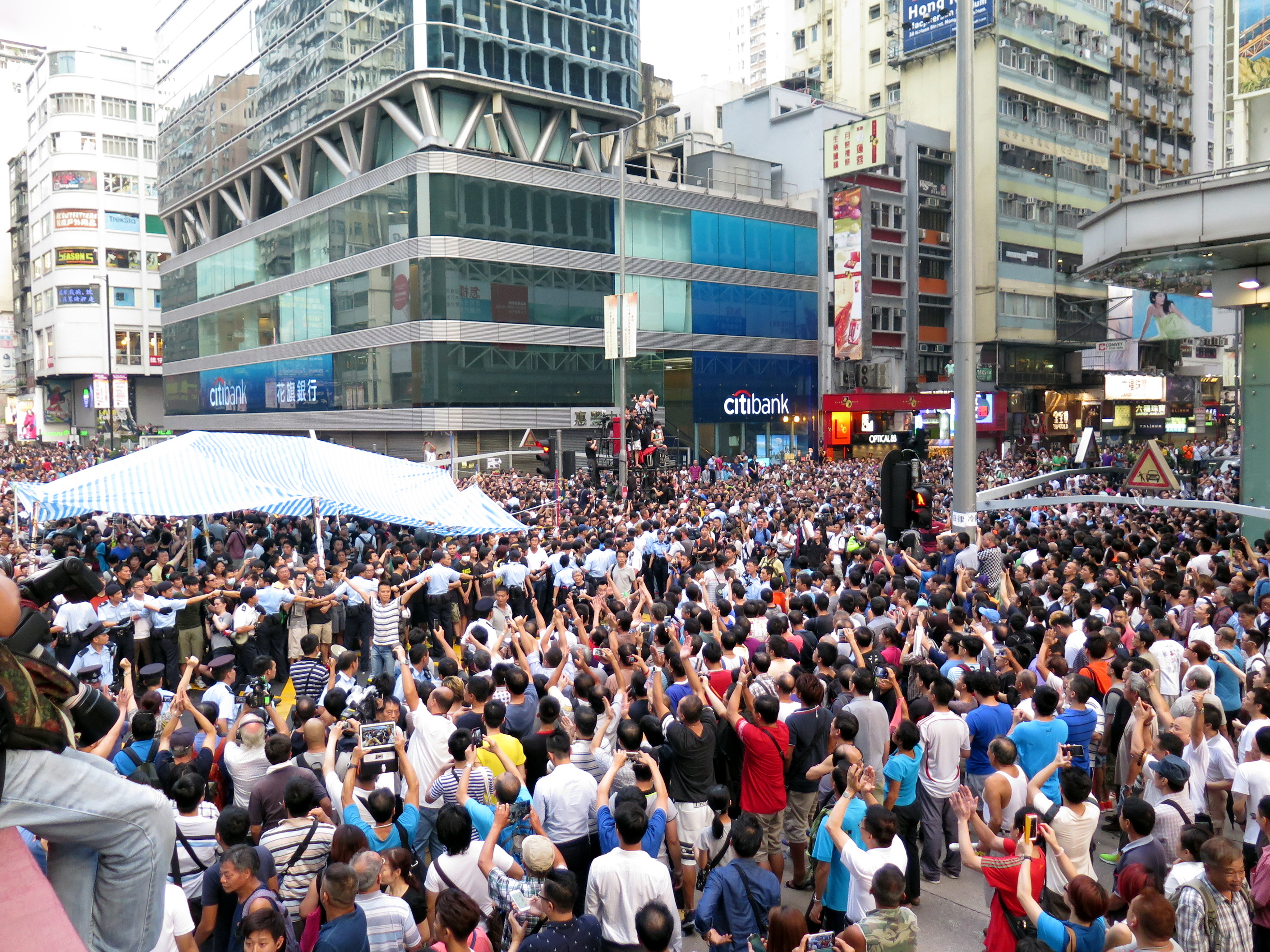 Umbrella Revolution Mong Kok View